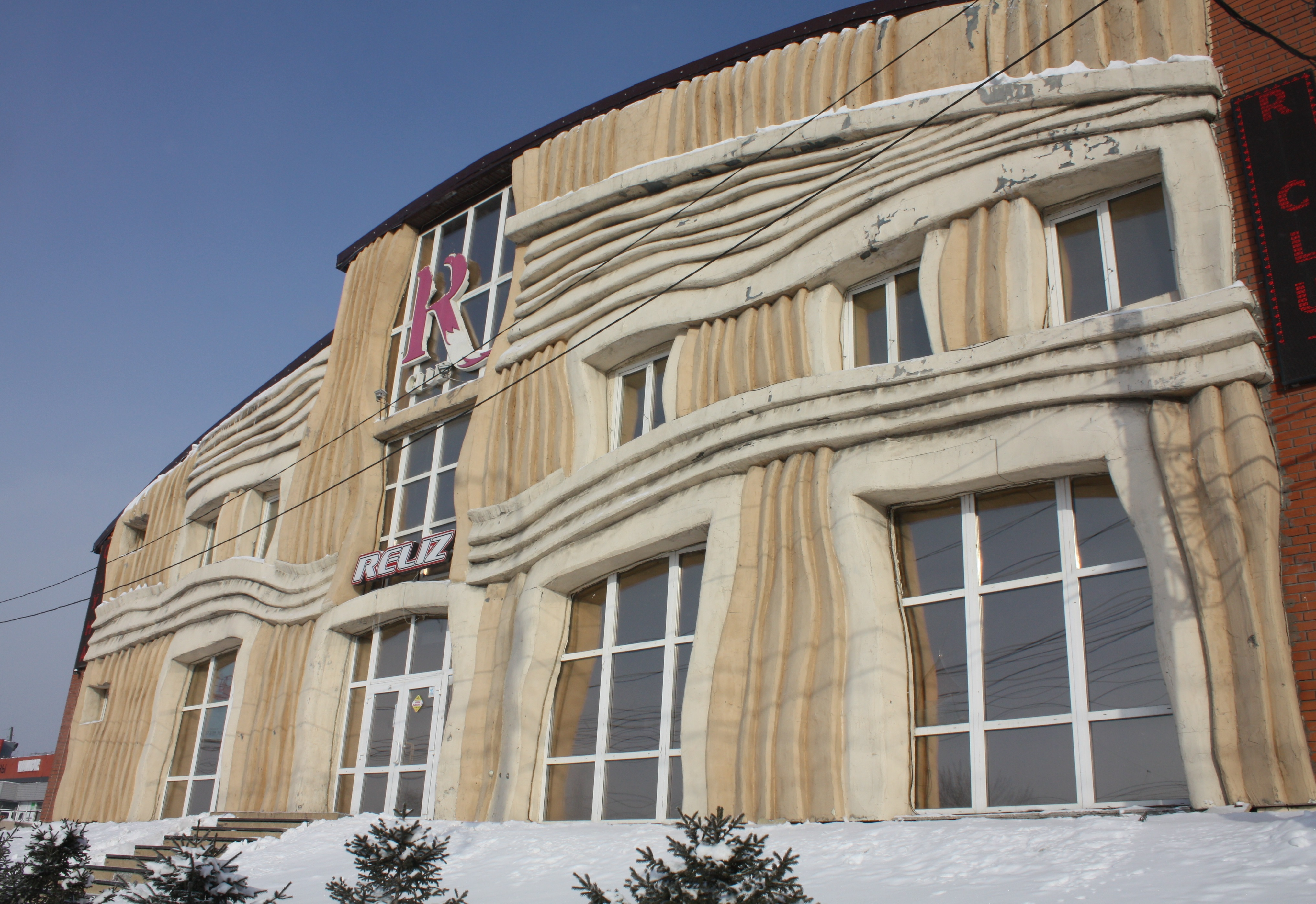 Bolshevistskaya Street, 95 in Novosibirsk, Russia.